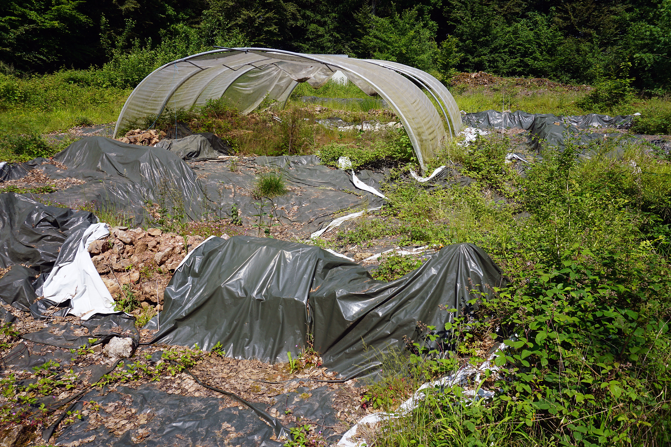 Archeological site of a roman mansion in Rippweiler "bei der Laach"